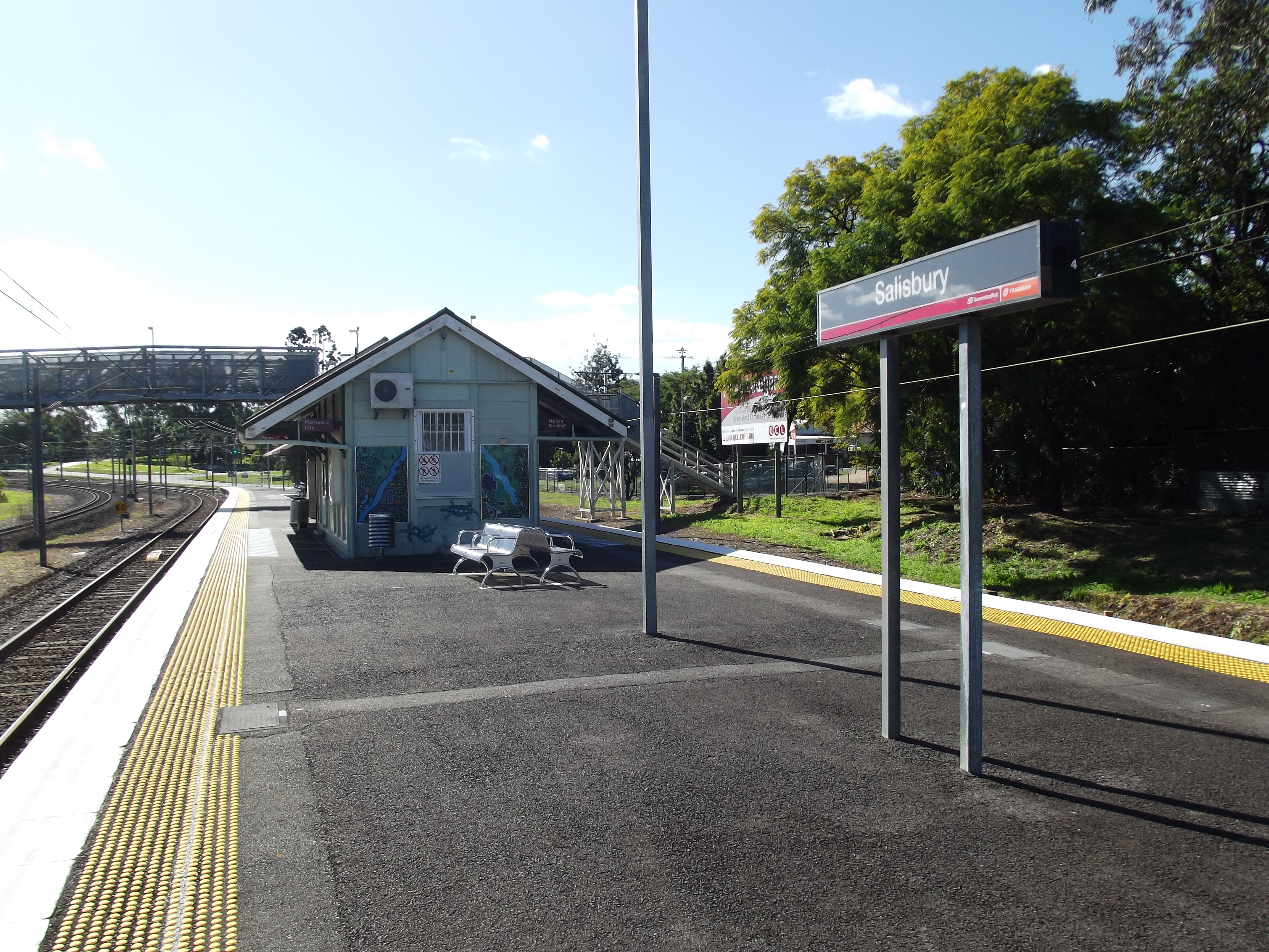 A photo of the Salisbury railway station, operated by TransLink, located in Brisbane, Queensland.